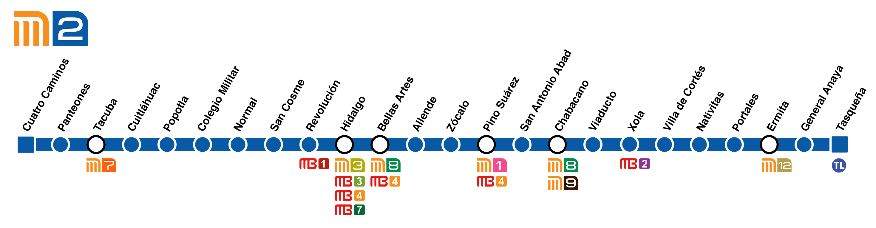 Mexico City Metro Line 2 scheme